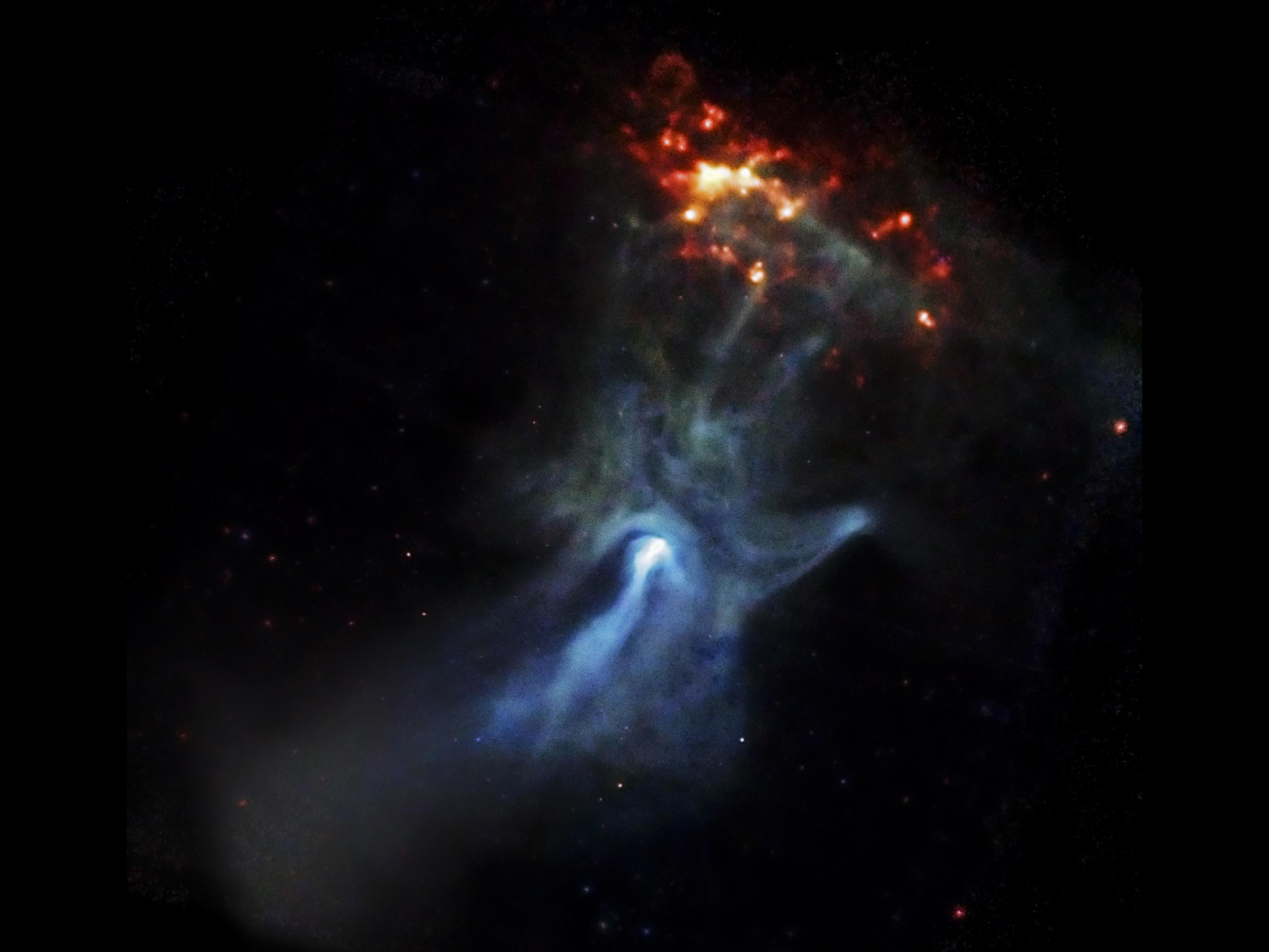 A Young Pulsar Shows Its Hand A small, dense object only 12 miles in diameter is responsible for this beautiful X-ray nebula that spans 150 light years. At the center of this image made by NASA's Chandra X-ray Observatory is a very young and powerful pulsar, known as PSR B1509-58, or B1509 for short. The pulsar is a rapidly spinning neutron star which is spewing energy out into the space around it to create complex and intriguing structures, including one that resembles a large cosmic hand. In this image, the lowest energy X-rays that Chandra detects are red, the medium range is green, and the most energetic ones are colored blue. Astronomers think that B1509 is about 1,700 years old and it is located about 17,000 light years away. Neutron stars are created when massive stars run out of fuel and collapse. B1509 is spinning completely around almost 7 times every second and is releasing energy into its environment at a prodigious rate -- presumably because it has an intense magnetic field at its surface, estimated to be 15 trillion times stronger than the Earth's magnetic field. The combination of rapid rotation and ultra-strong magnetic field makes B1509 one of the most powerful electromagnetic generators in the galaxy. This generator drives an energetic wind of electrons and ions away from the neutron star. As the electrons move through the magnetized nebula, they radiate away their energy and create the elaborate nebula seen by Chandra.